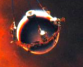 Pioneer Venus Large Probe, from image:Pioneer_Venus_Large_Probe.jpg.